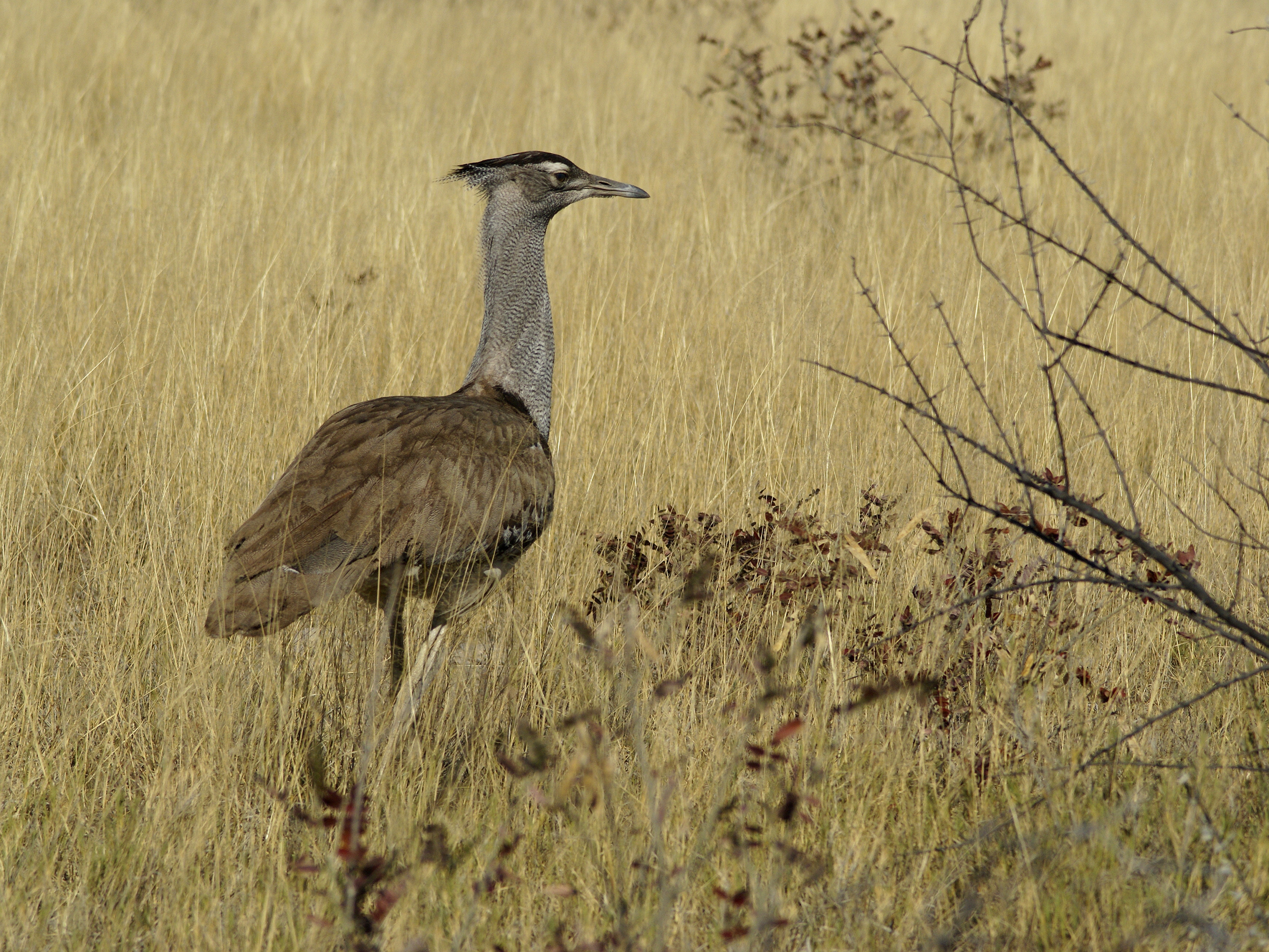 A male Kori Bustard near Groot Okevi, eastern Etosha National Park, Namibia